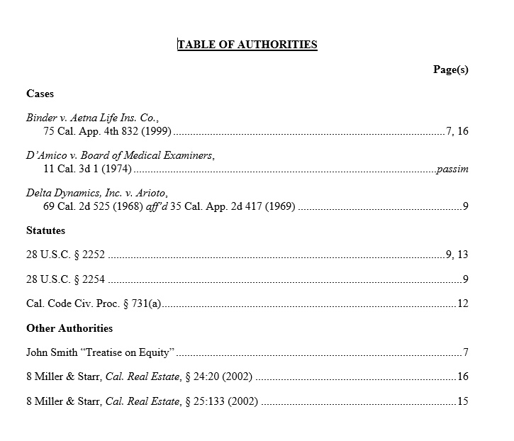 This example shows the common grouping of Cases, Statutes and Other Authorities. The citations are listed alphabetically within each grouping, and show the page number(s) in the brief where the citations appear.